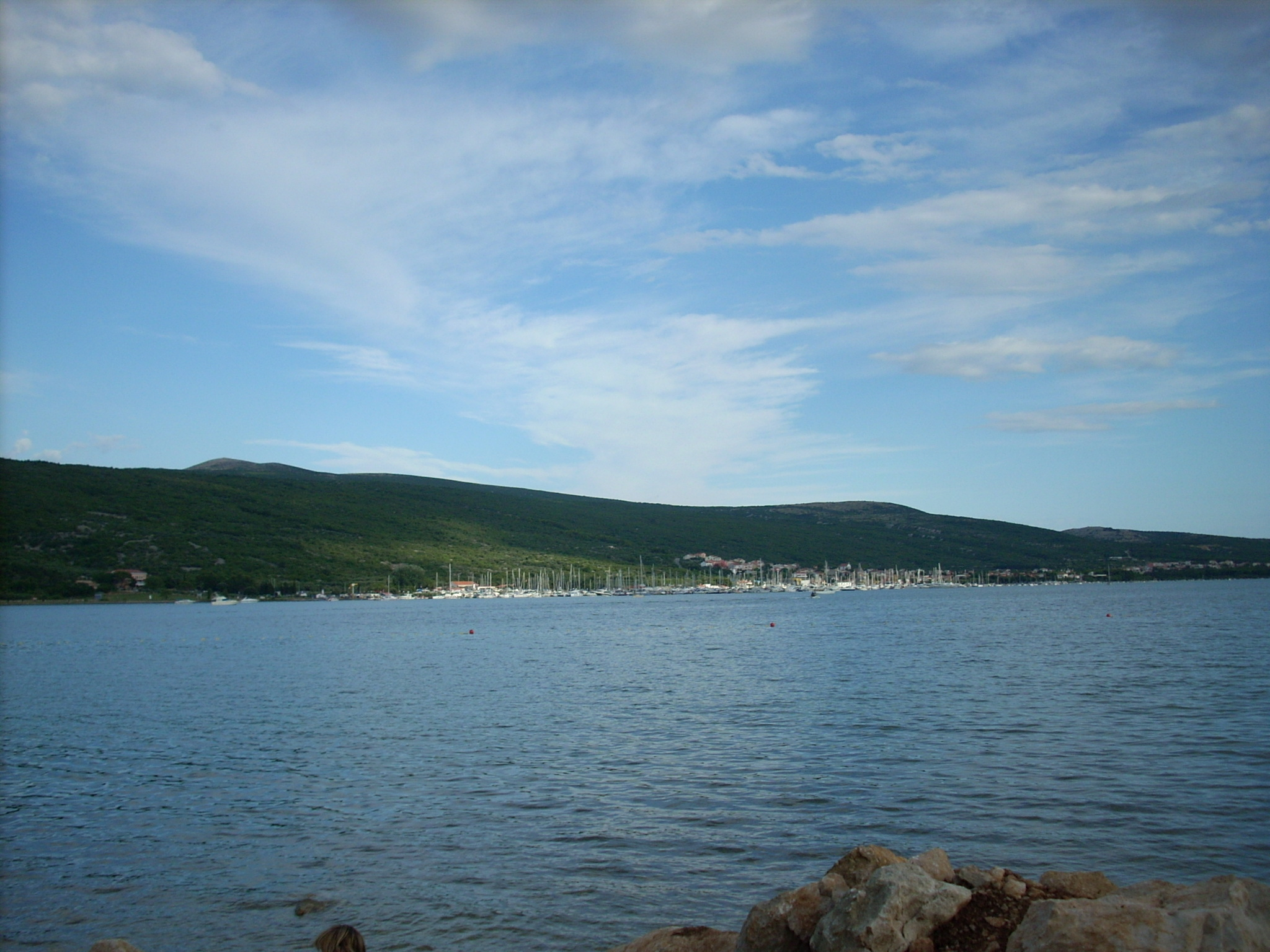 Krk (town), beach east from town, in the distance the town and marina Punat (Island Krk, Croatia).